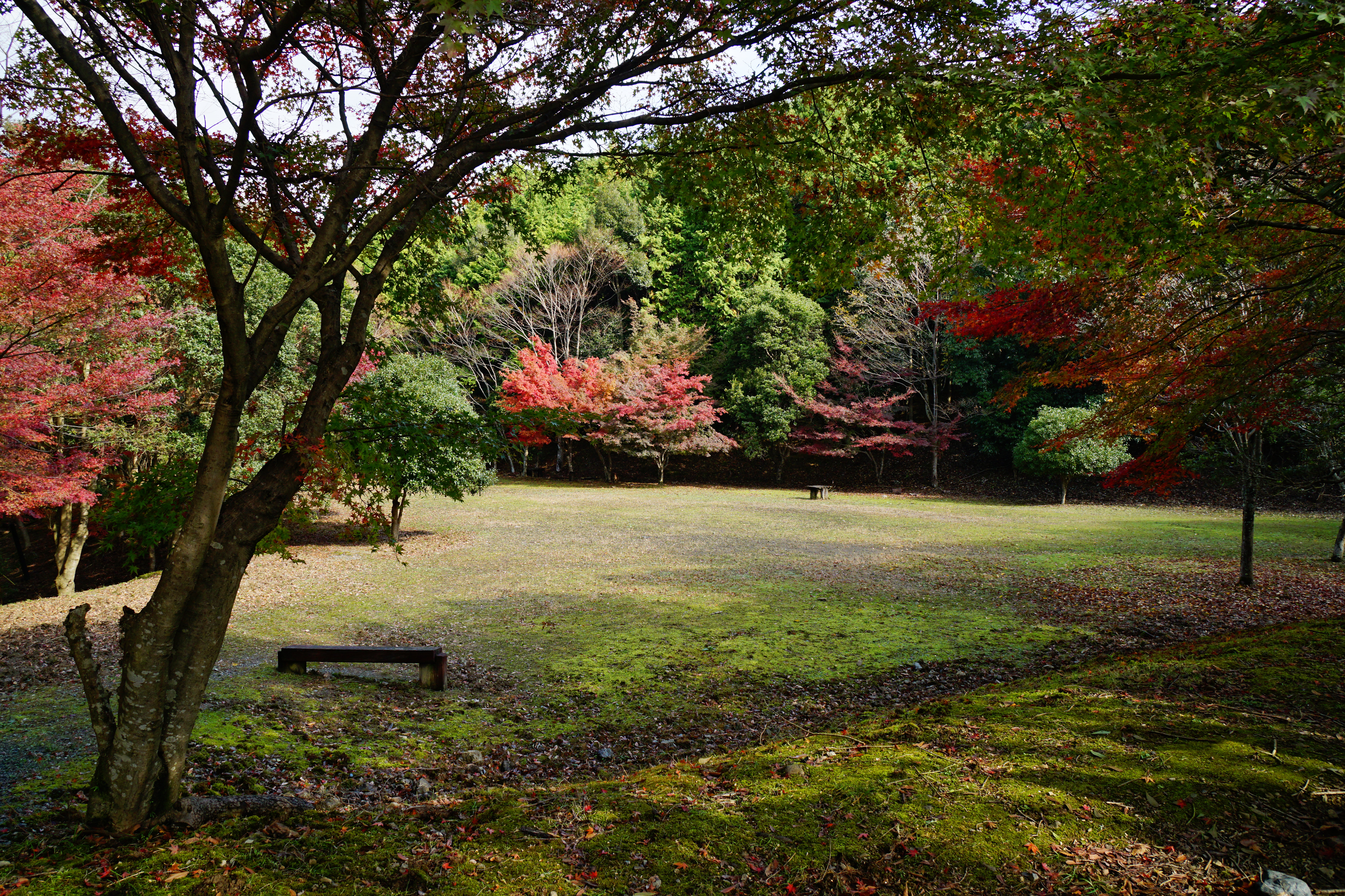 Kabusan-ji in Takatsuki, Osaka Prefecture, Japan